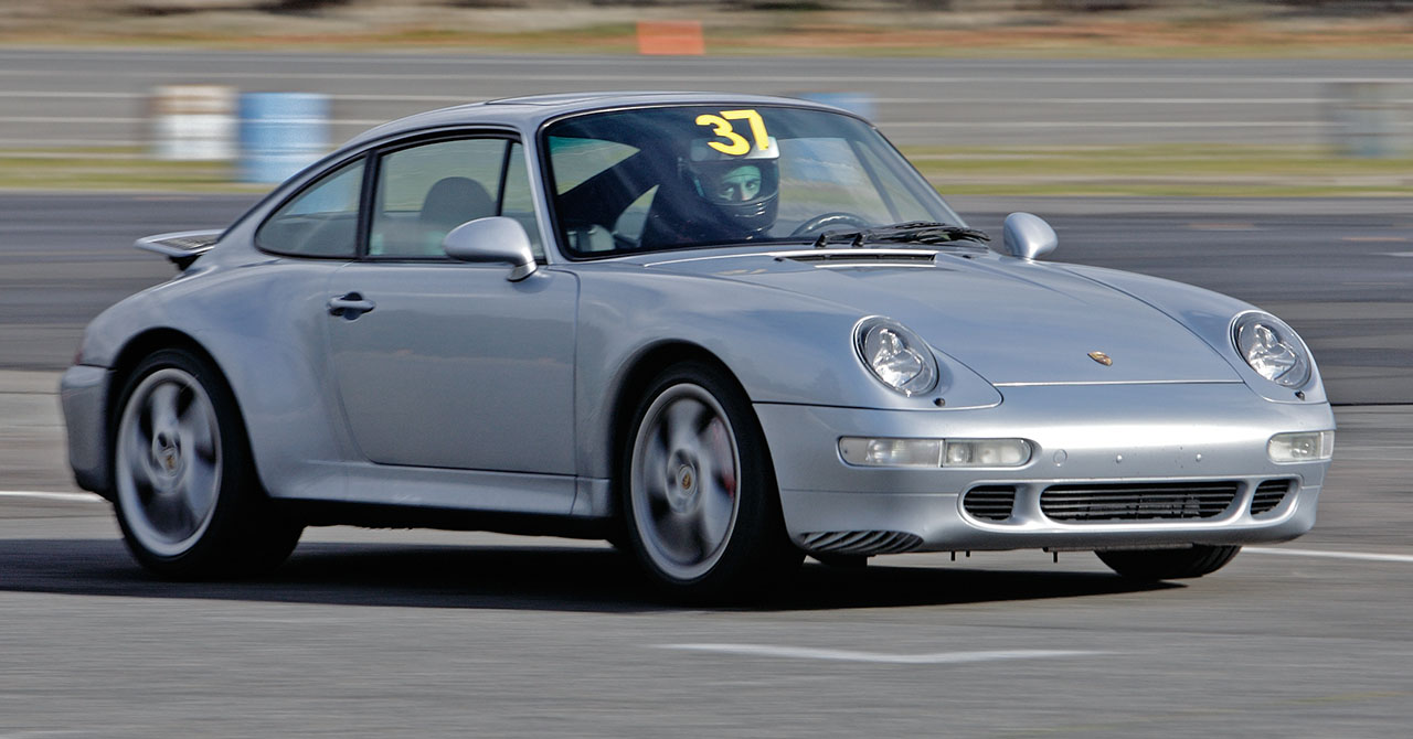 Silver Porsche 993 Carrera 4S coupé in competition